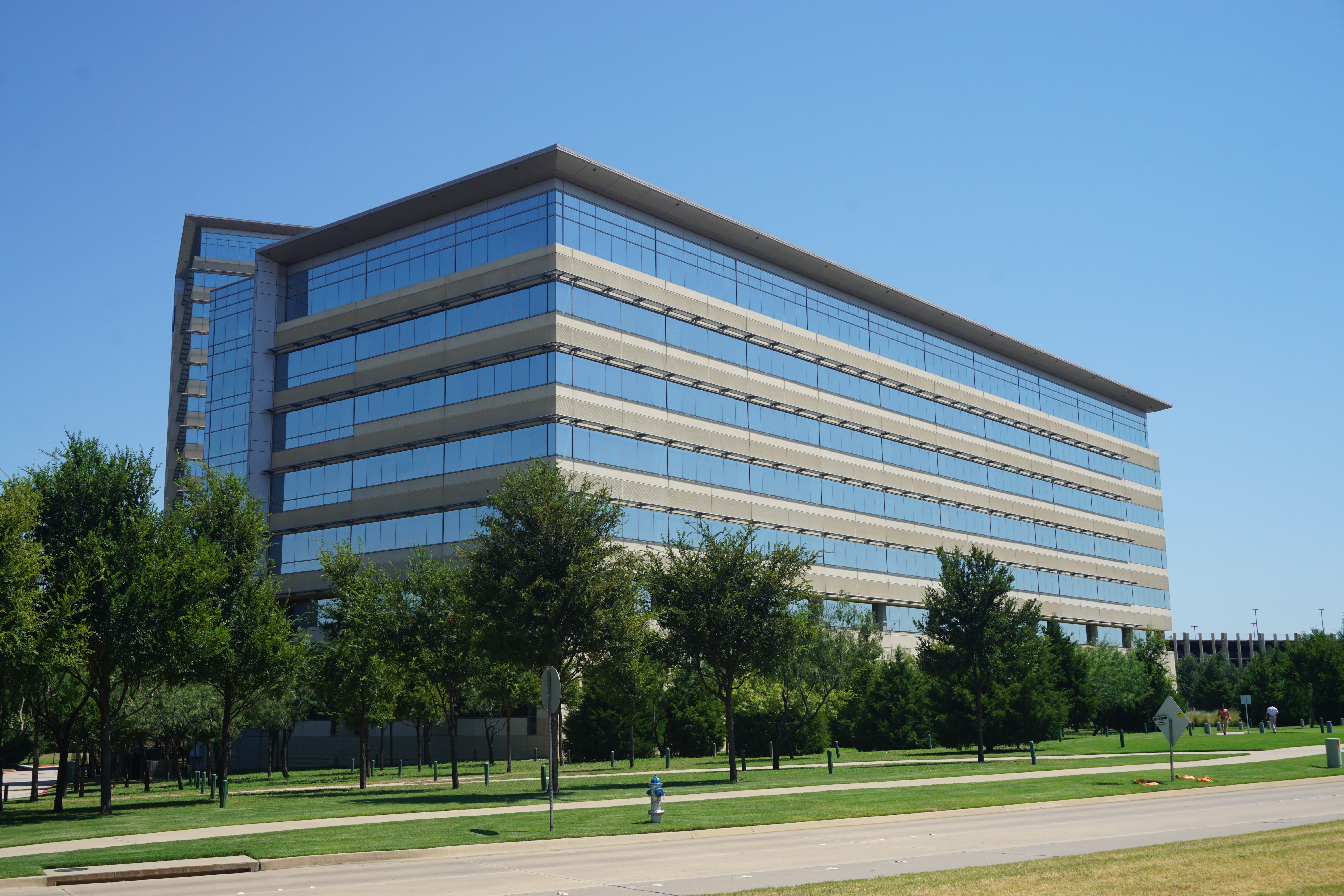 Blue Cross and Blue Shield of Texas in Richardson, Texas (United States).